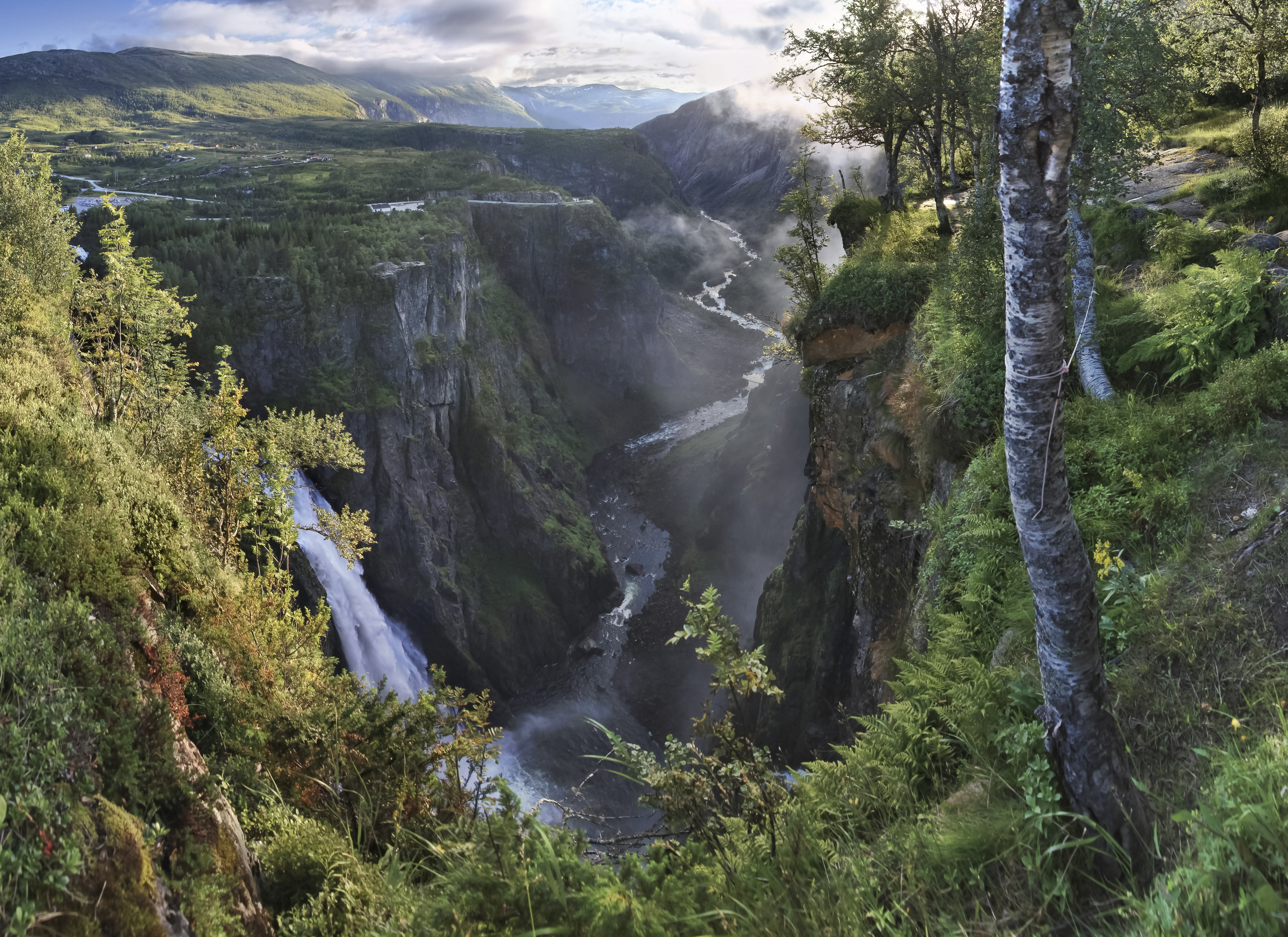 An evening view to Måbødalen in Eidfjord municipality, Sogn og Fjordane, Norway in 2011 August. The view has been captured from the eastern end of the valley.